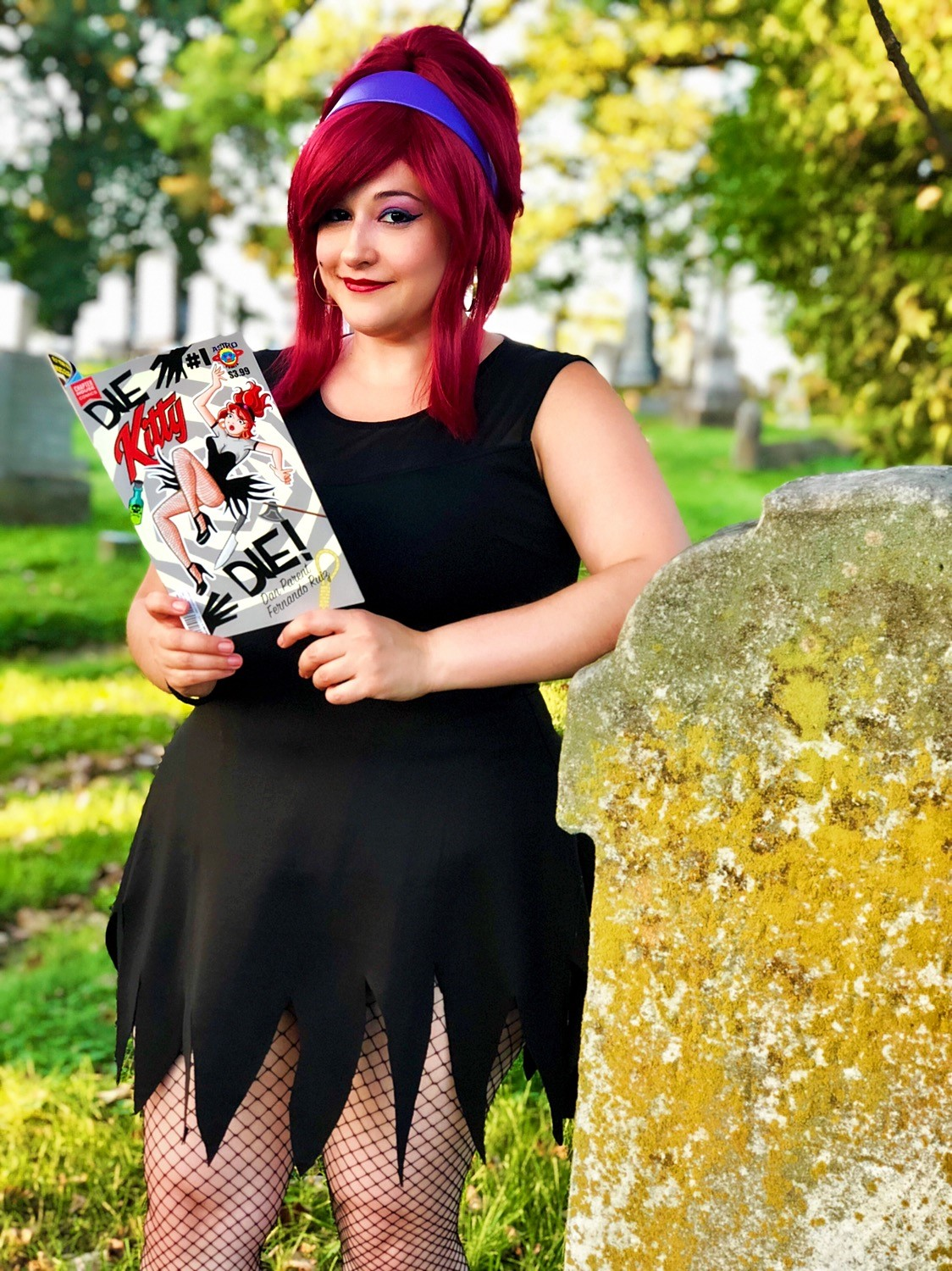 Photo taken by Adam Alamo of Shazzer VS in her original Kitty Ravencraft costume in a cemetery in Pennsylvania. Shazzer VS is holding a copy of the first Die Kitty Die comic.